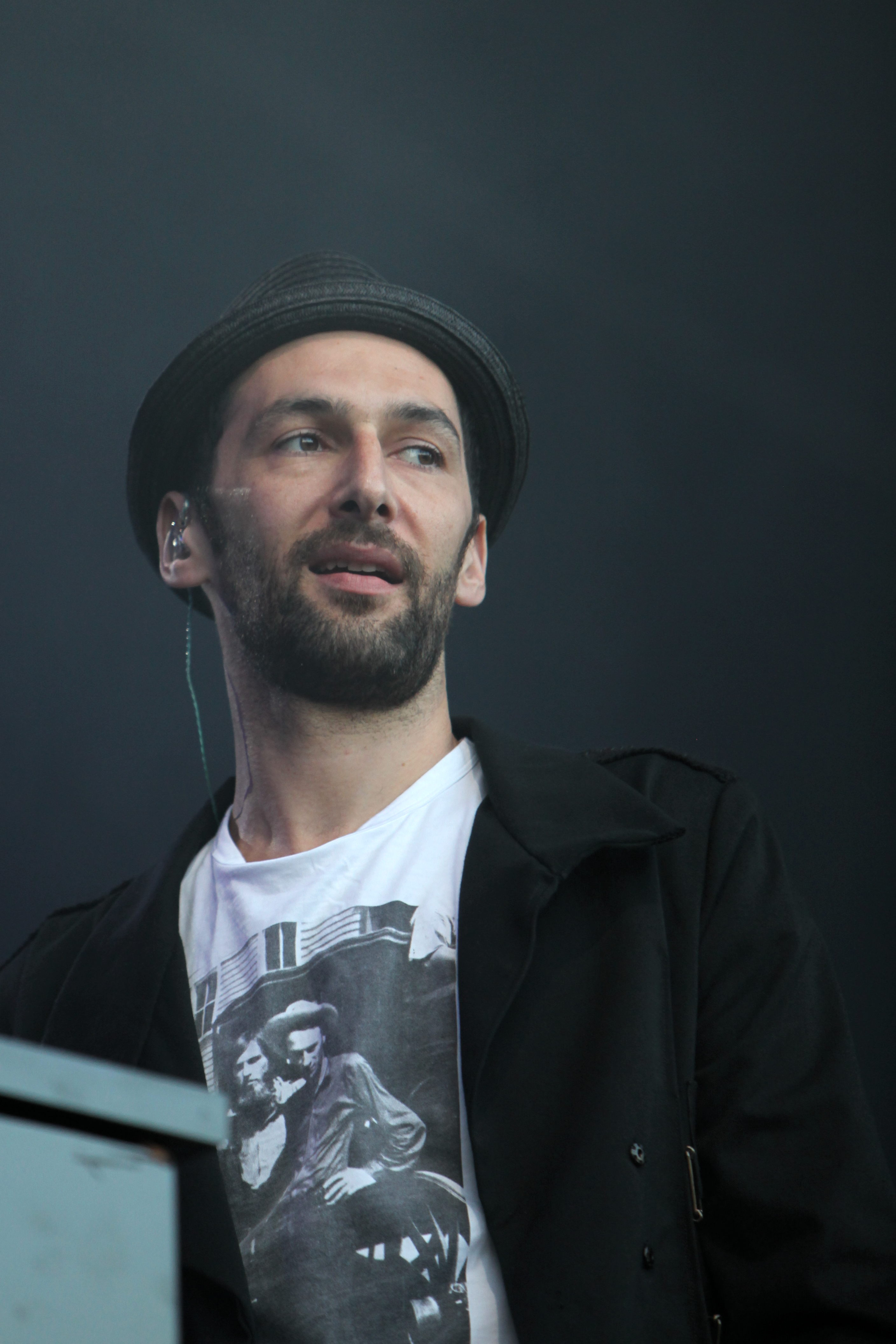 AaRON at the Eurockéennes de Belfort 2011 The making of this document was supported by Wikimedia CH. (Submit your project!) For all the files concerned, please see the category Supported by Wikimedia CH.